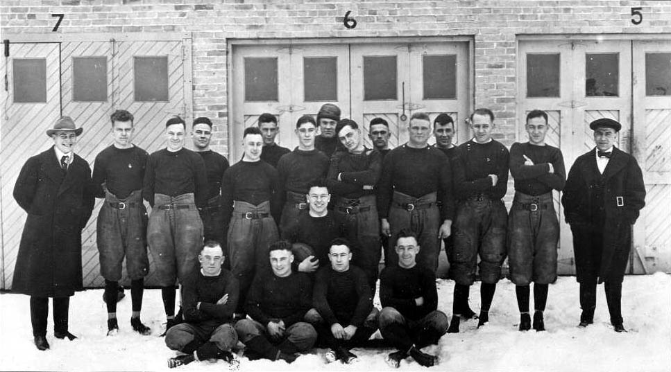 The 1919 Green Bay Packers team photo.